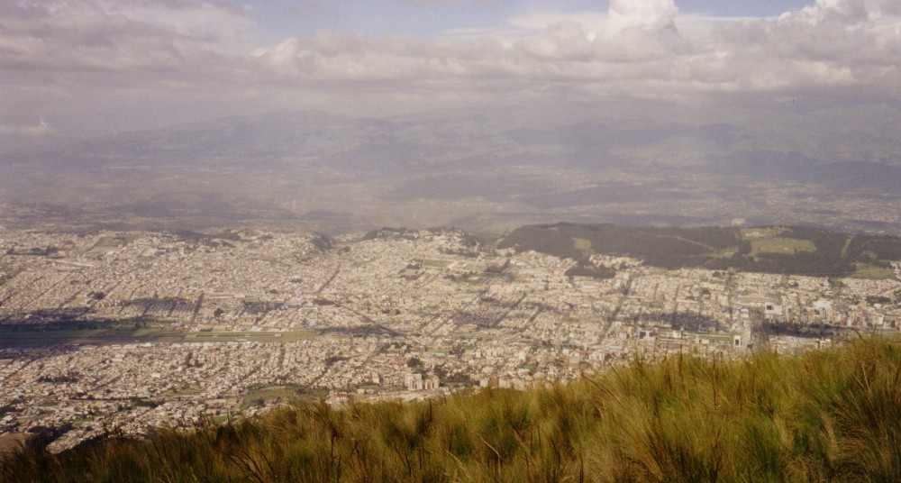 northern Quito as seen from Pichincha